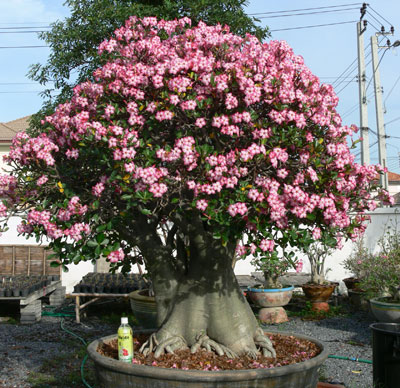 Ra Chi Nee Pan Dok's mother plant